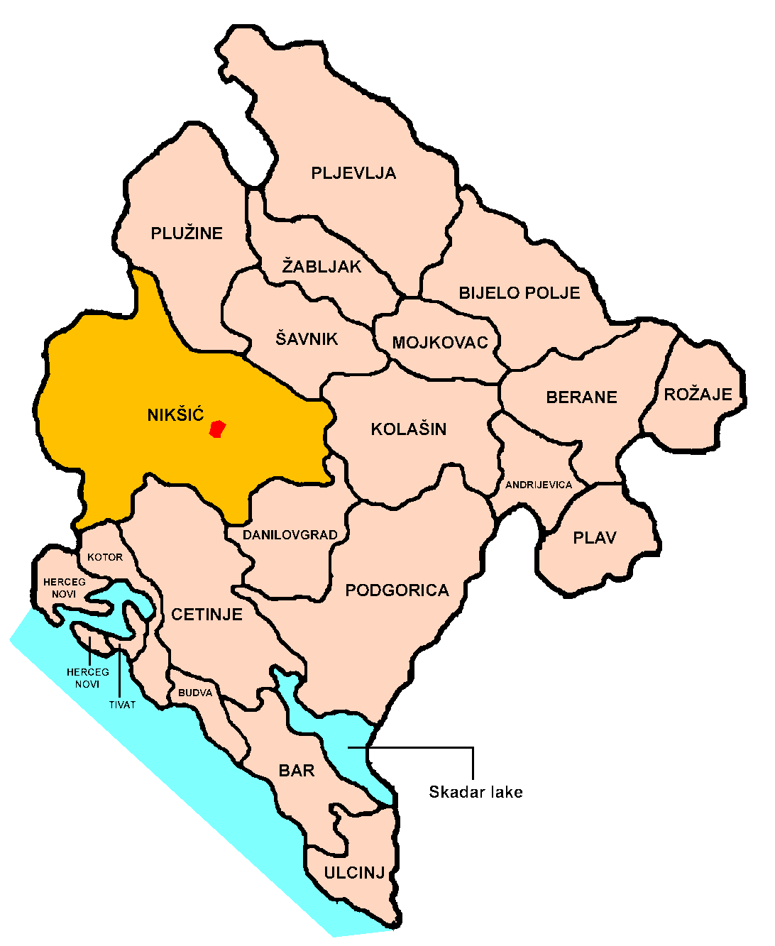 Location of Nikšić town and municipality within Montenegro